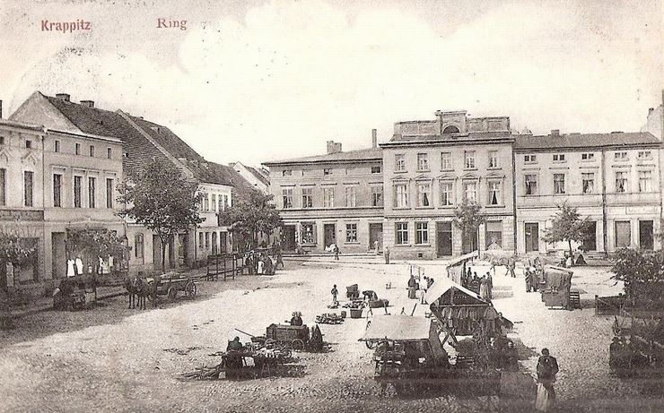 Rynek in Krapkowice